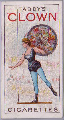 An original Taddy's Clowns and Circus Artistes card from the UK (1920s). Taddy and Co., London